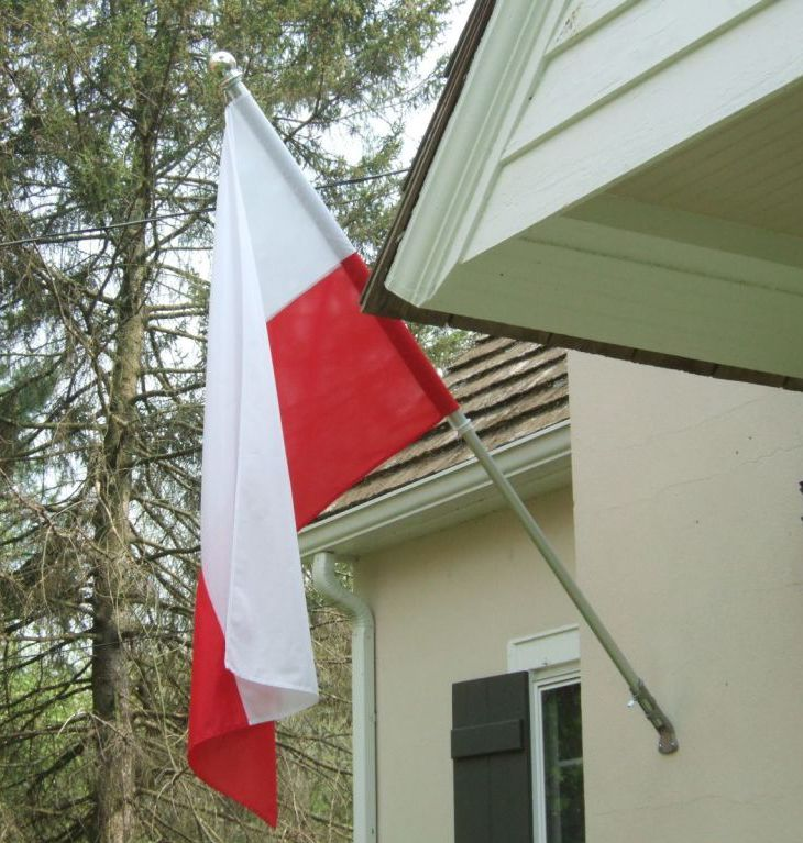 Flag of Poland hanging at the house of emigrants to the USA.